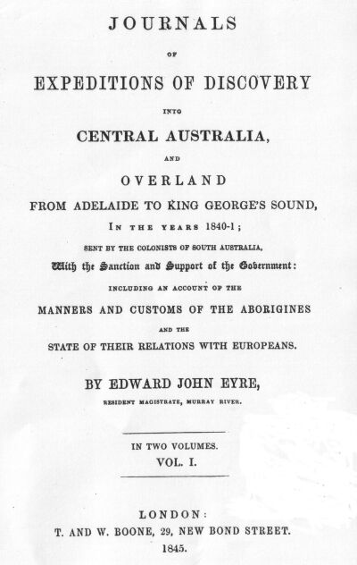 This is the frontispiece of Volume 1 of "Journals Of Expeditions Of Discovery Into Central Australia And Overland From Adelaide To King George's Sound In The Years 1840-1" by Edward John Eyre (1815-1901).